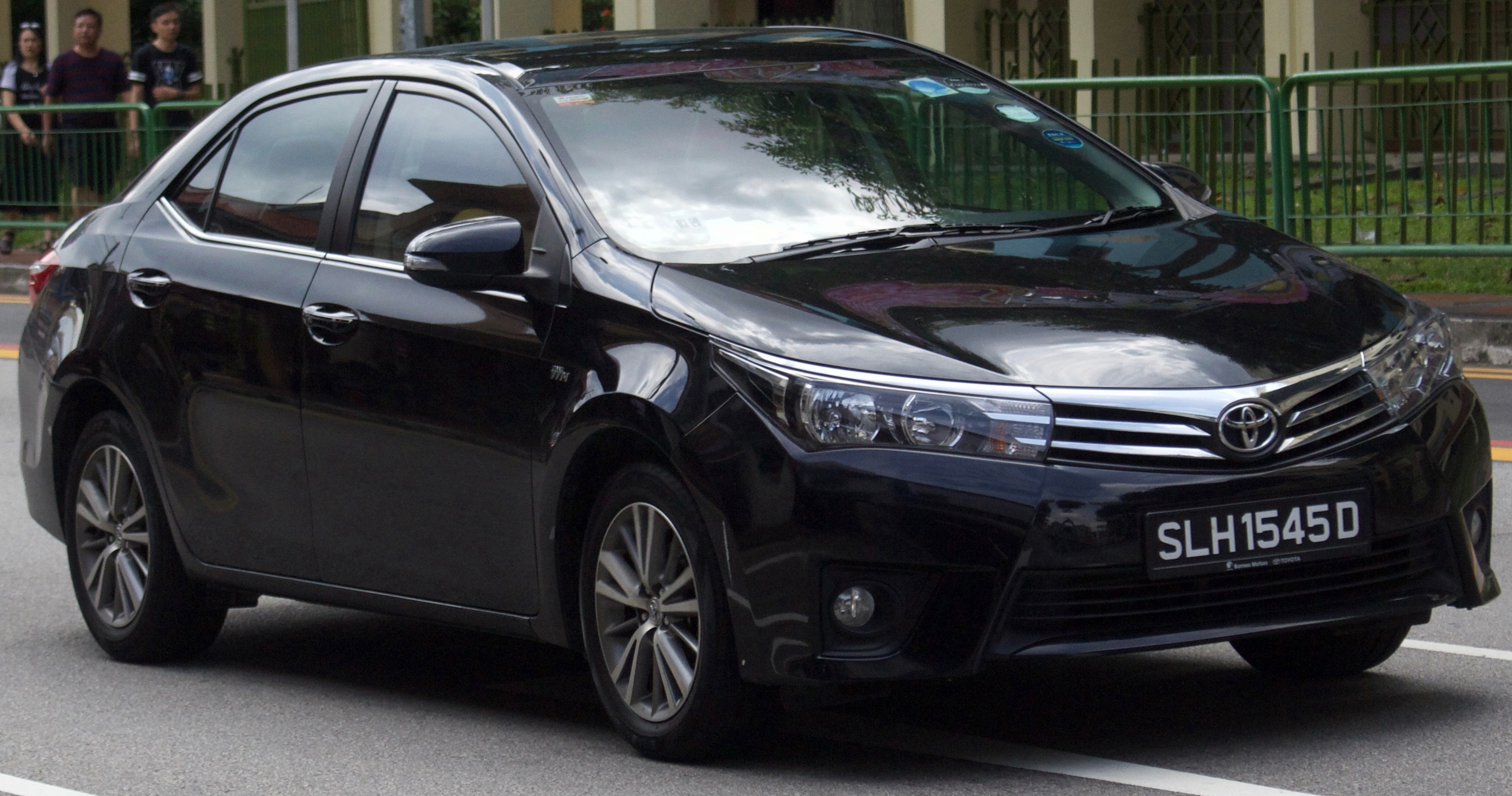 2016 Toyota Corolla Altis (ZRE172R) 1.6 sedan. Photographed in Singapore.